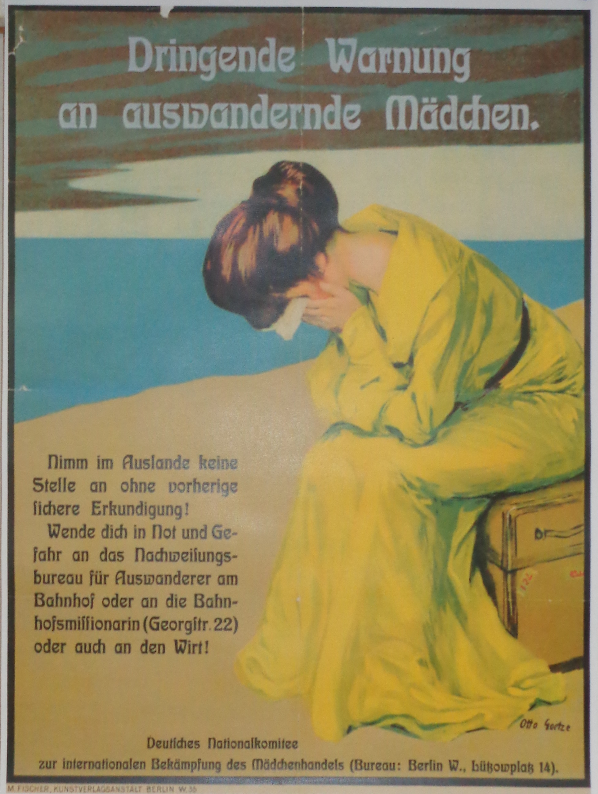 A poster warning the German women and girls about the danger of human traffic in the USA. Text on poster: "Urgent warning to emigrating girls. Do not take a job abroad without first checking in! Turn in distress and danger to the indulgence bureau for emigrants at the [train] station, or to the railway mission (Georgstrasse 22), or even to the landlord! German National Committee for Combating the International Sale of Girls (Office: Berlin W., Lützowplatz 14).